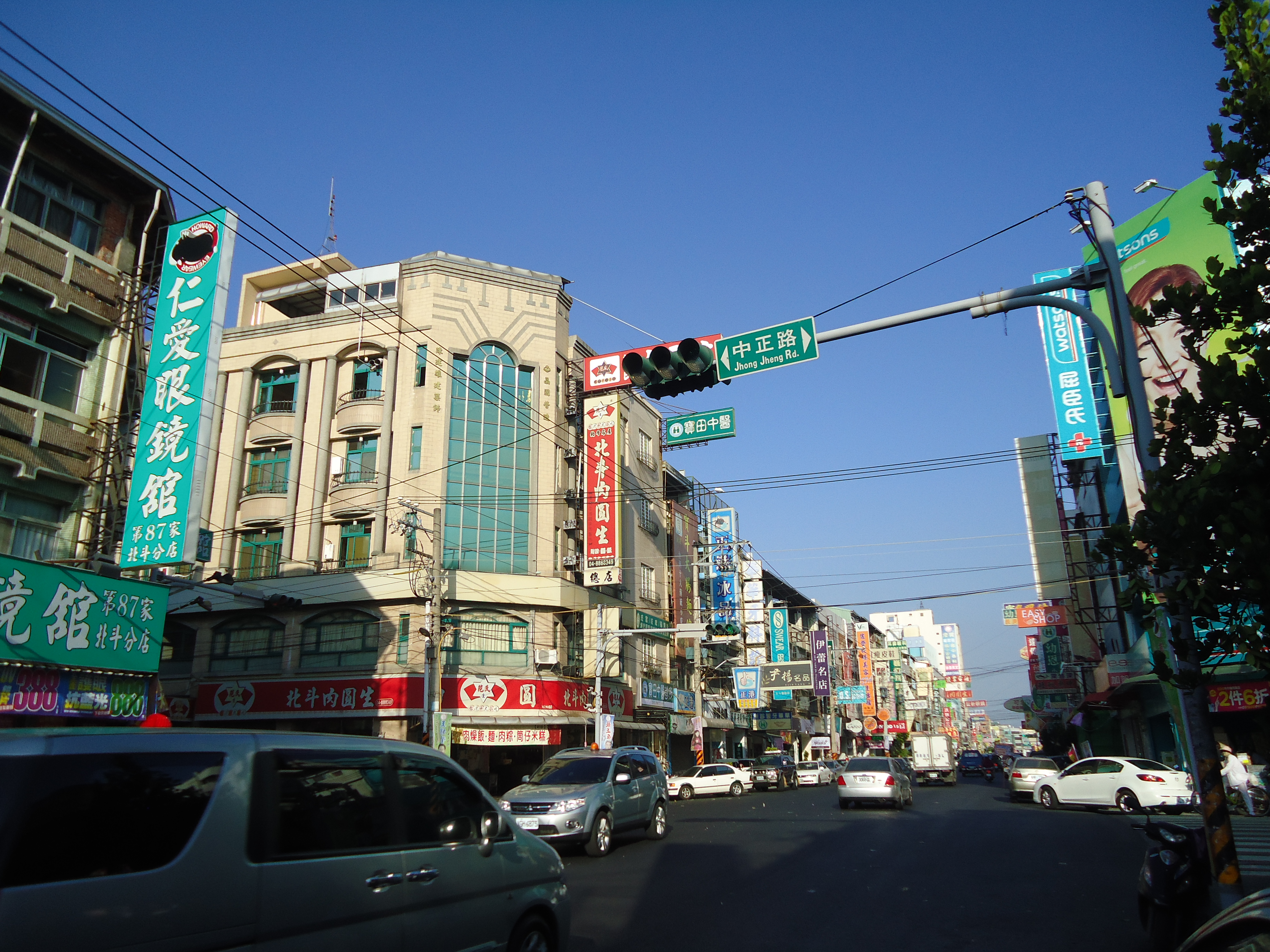 北斗中華路街景 Downtown Beidou